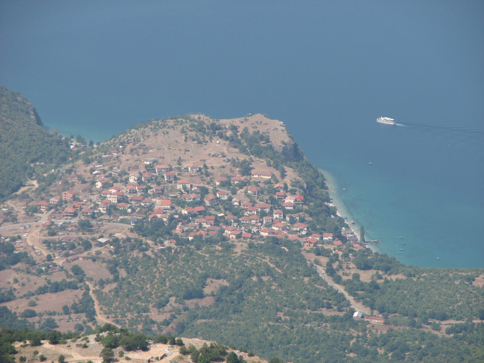 View from Galičica, down there village Trpejca and Ohrid Lake